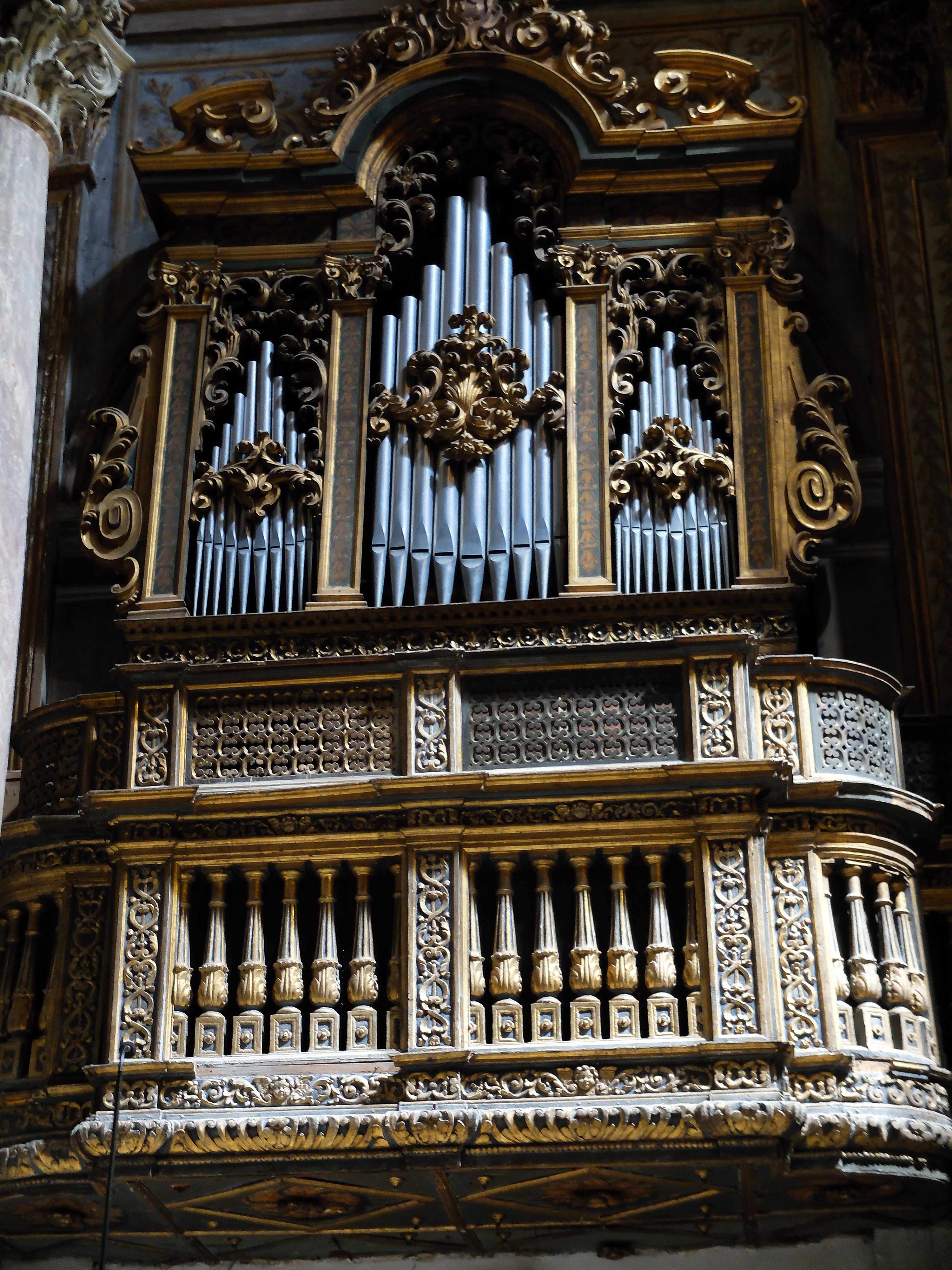 Organ by Giuseppe de Martino (1718), Santa Caterina a Formiello church, Naples.